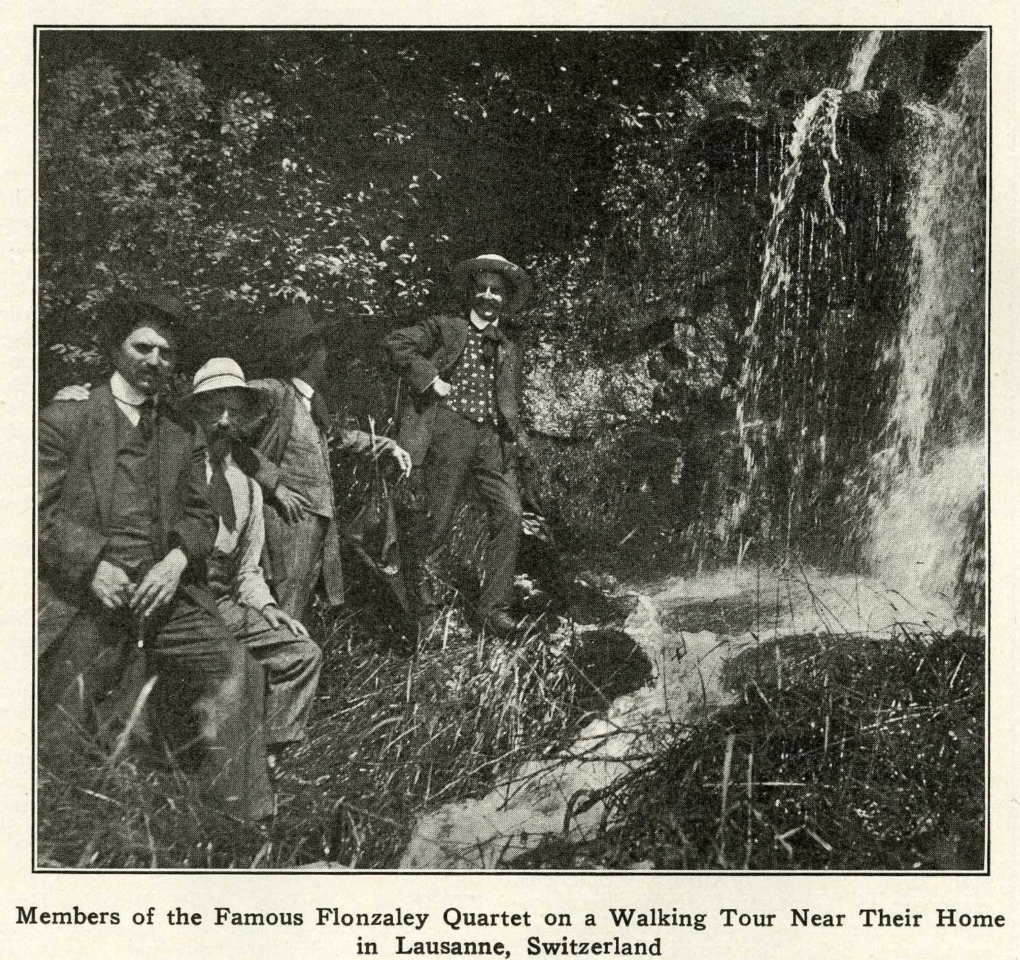 Photo of the Flonzaley Quartet.